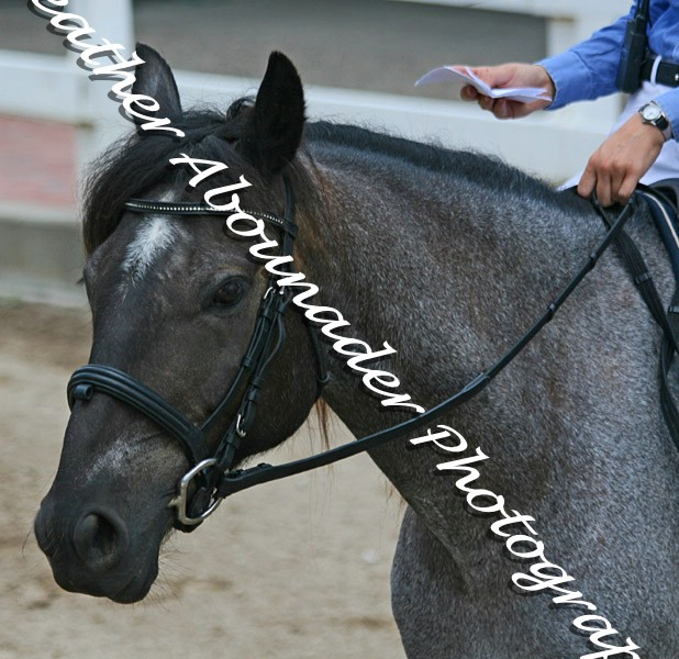 photo by Heather Abounader